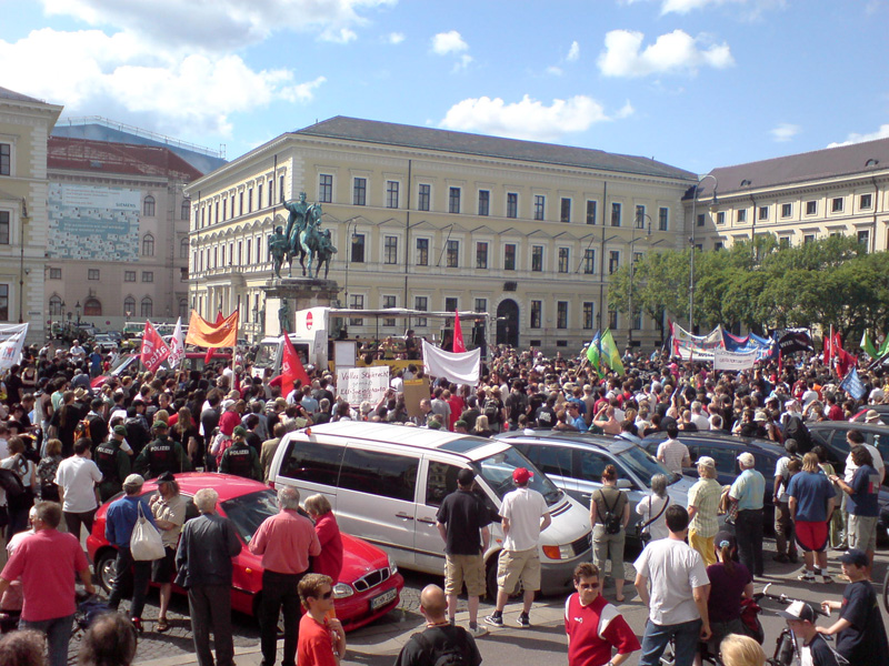 Demonstration against surveillance in München